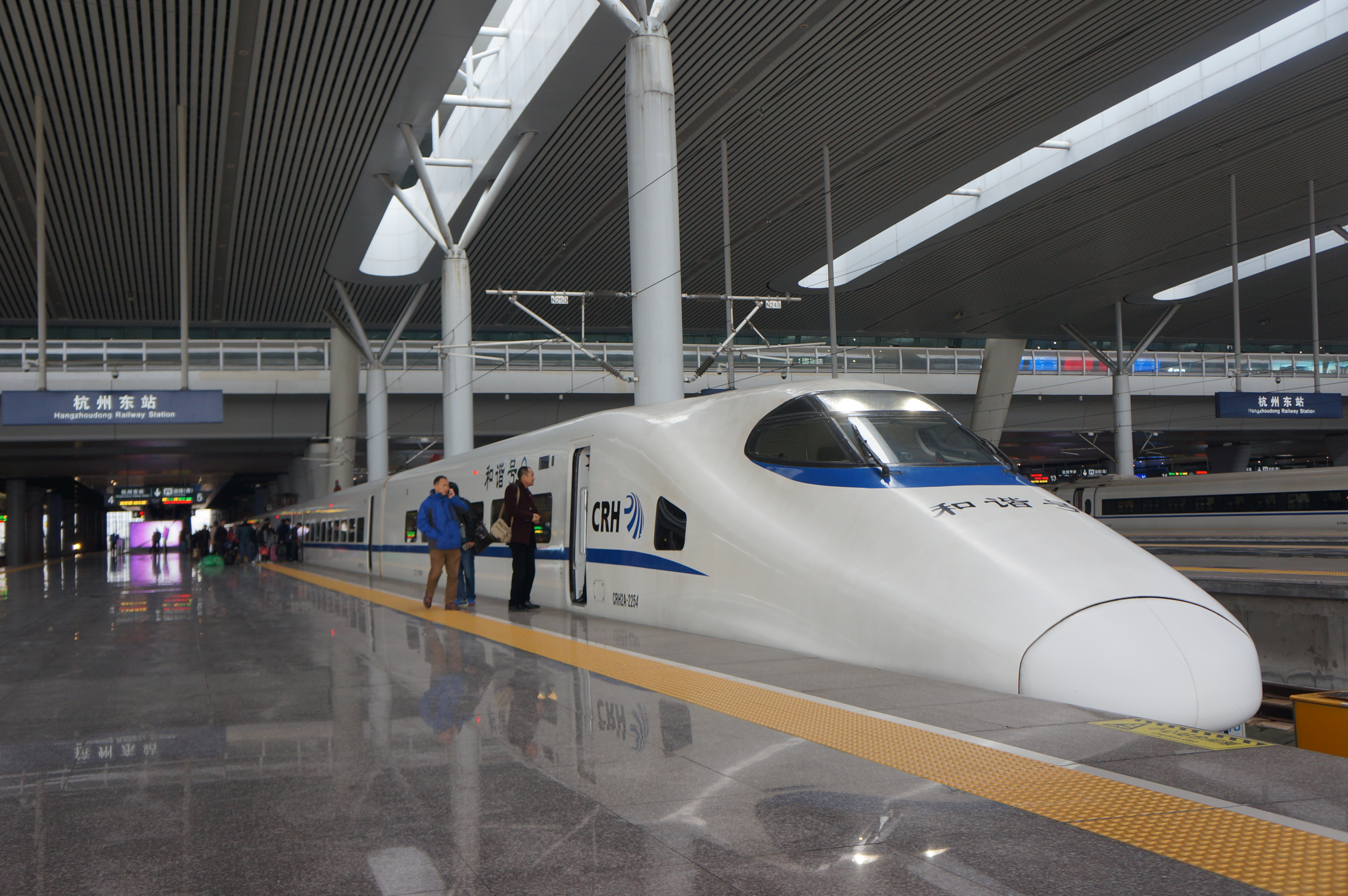 201611 D81 waits for departure at Hangzhoudong Station